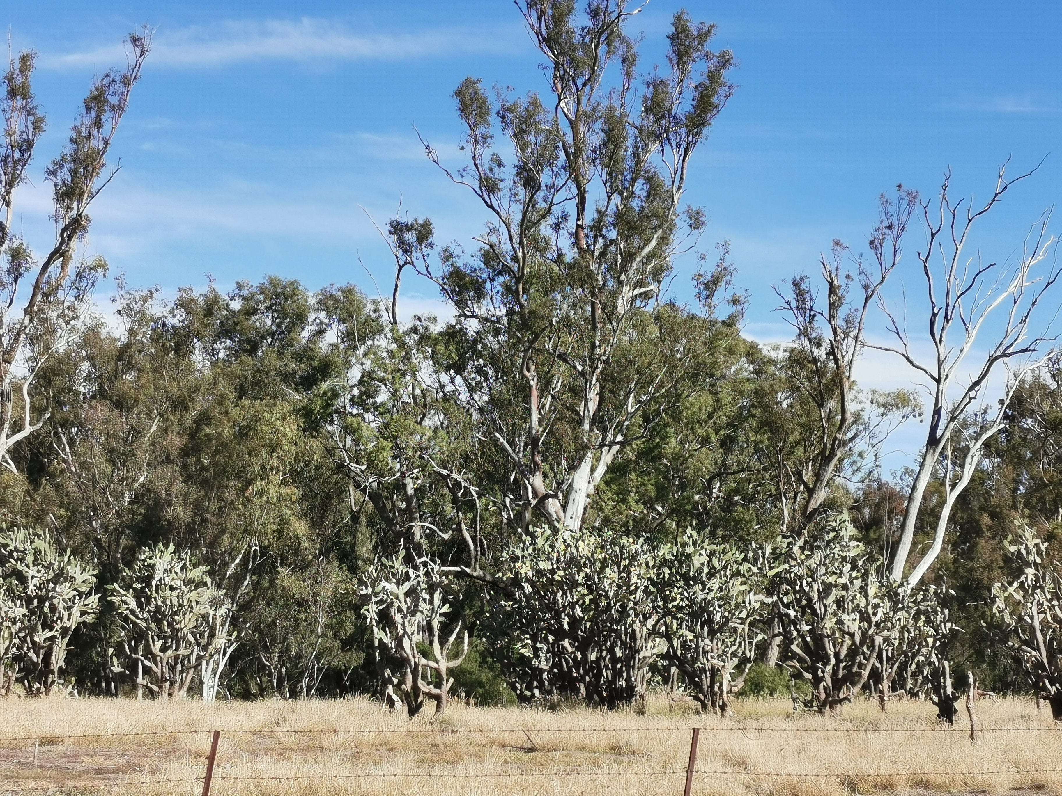 Tree cacti, Opuntia tomentosa, Yellow Bank Reserve, Queensland just north of the Dumearesq River. 7/06/2019